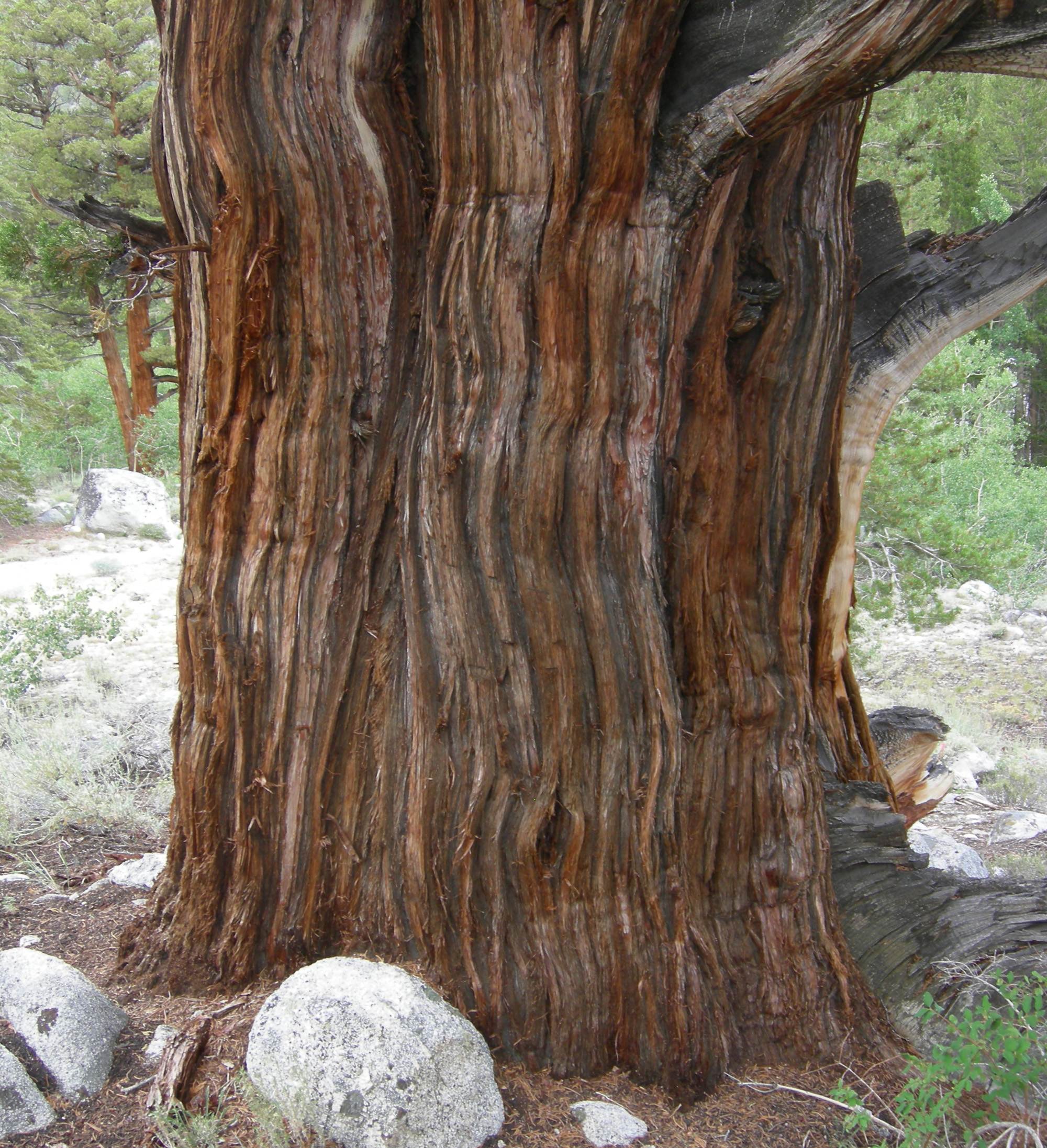 Juniperus occidentalis var. australis, eastern Sierra Nevada, Rock Creek Canyon, California.